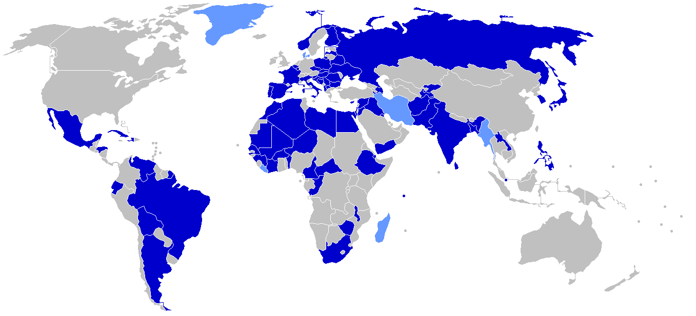 States parties and signatories of the Convention for the Suppression of the Traffic in Persons and of the Exploitation of the Prostitution of Others. States parties in dark blue; signatory states in light blue.